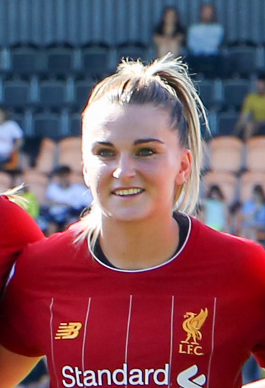 2019–20 FA WSL: Tottenham Hotspur FC Women v Liverpool FC Women, 15 September 2019 – Liverpool starting line-up.